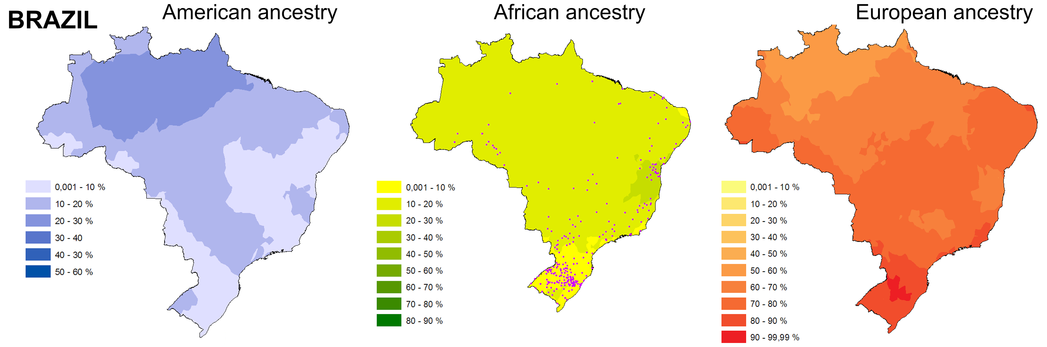 Geographic distribution of Native American (blue), African (green) and European (red) ancestry based on individual estimates for samples from Brazil. The Brazilian sample shows widespread European ancestry with the highest levels being observed in the south. African ancestry is also widespread (except for the south) and reaches its highest values in the East of the country. Native American ancestry is highest in the north-west (Amazonia). To facilitate comparison, color intensity transitions occur at 10% ancestry intervals for all maps. The birthplace of individuals are indicated by purple dots on the African ancestry map. Cropped from File:Geographic ancestry distribution of Brazil, Chile, Colombia, Mexico and Peru.png.